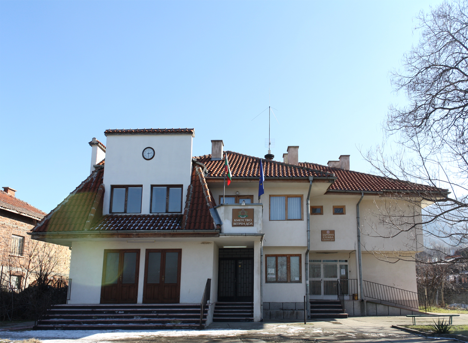 village hall of Vetren Dol